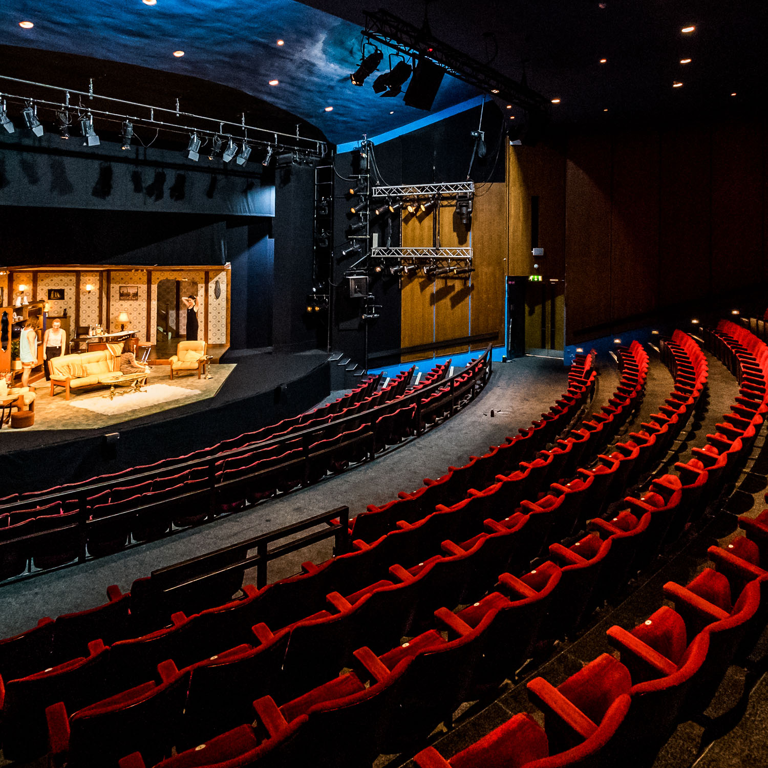 Auditorium Interior 2018